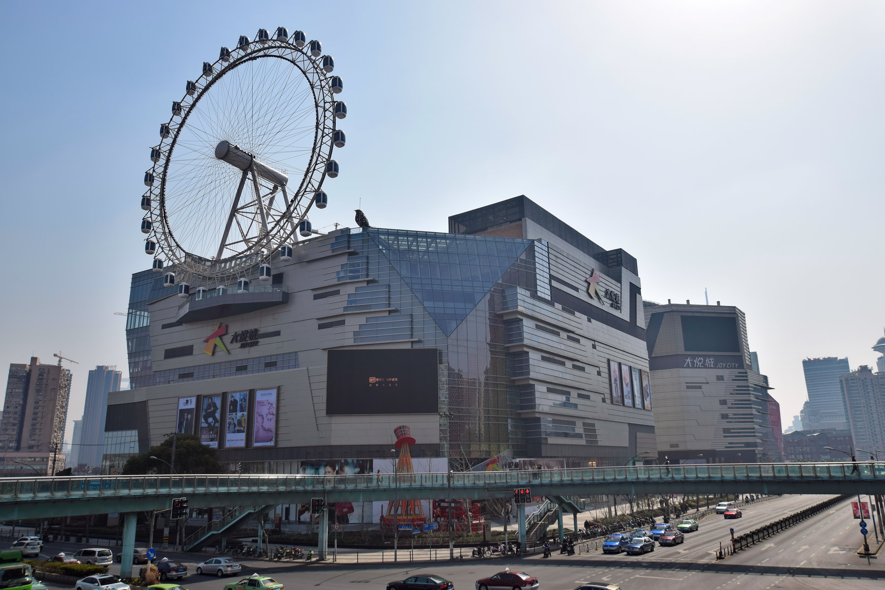 Shanghai Jing'an Joy City (f.k.a. Shanghai Joy City)